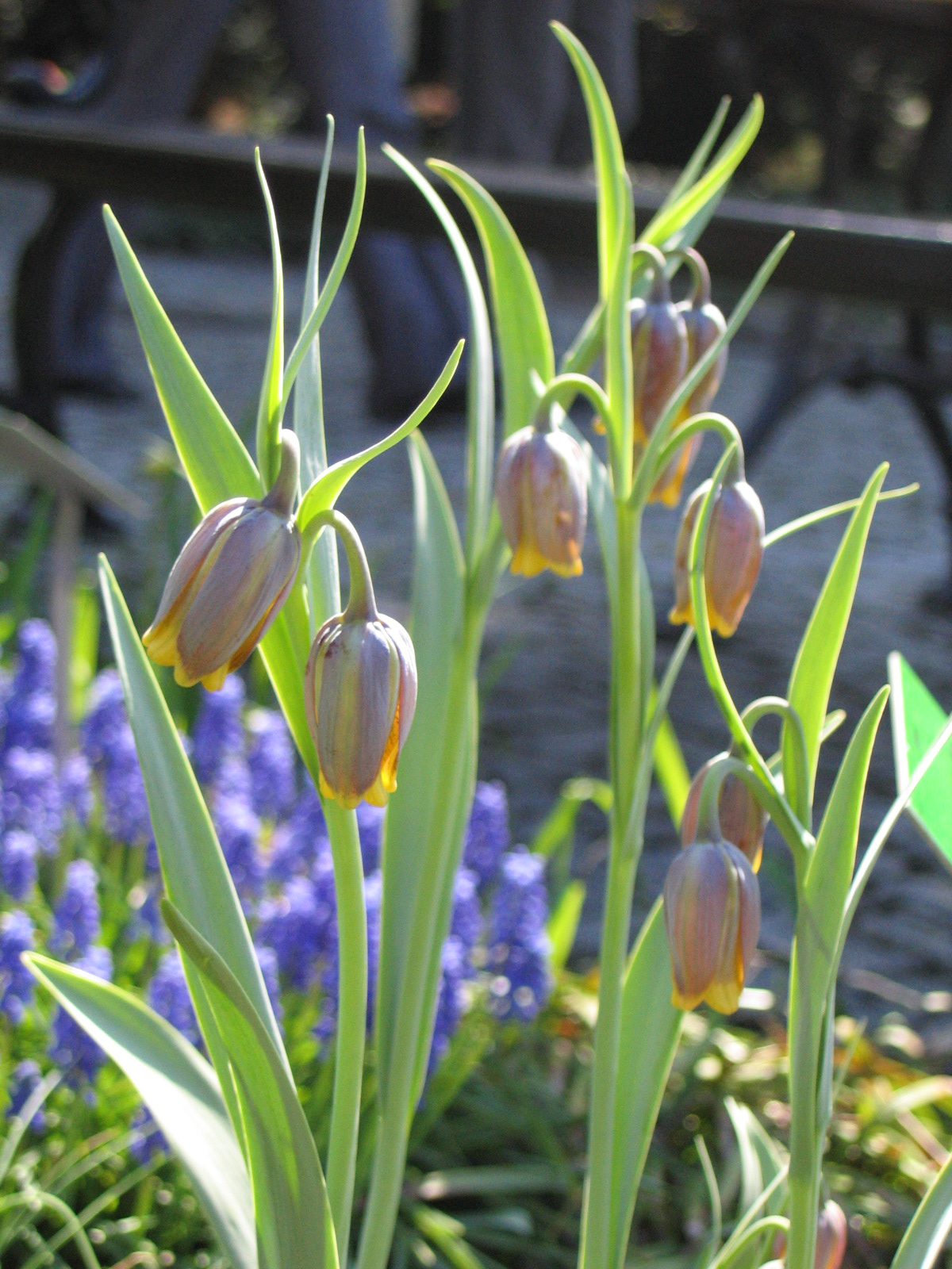 Fritillaria uva-vulpis flowers, plants cultivated in Wrocław University Botanical Garden, Wrocław, Poland.